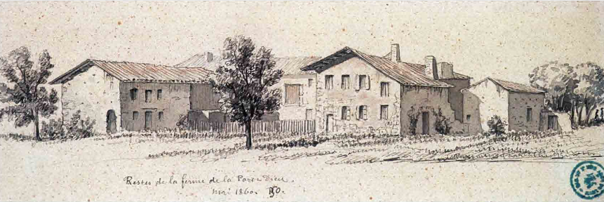 Remains of the Part-Dieu farm estate in 1860